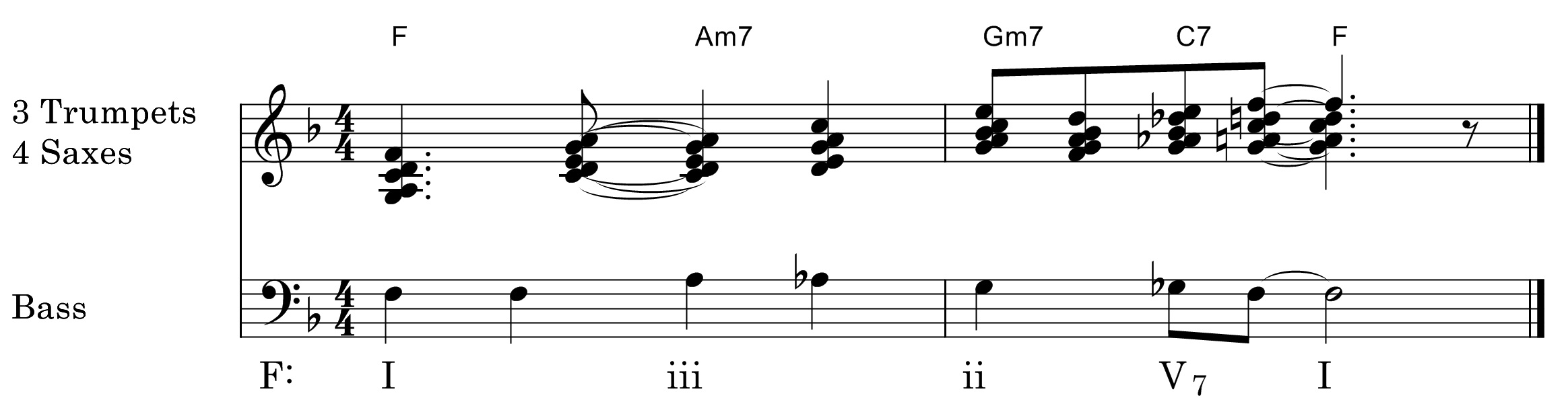 5 voice sectional harmony in close voicing.